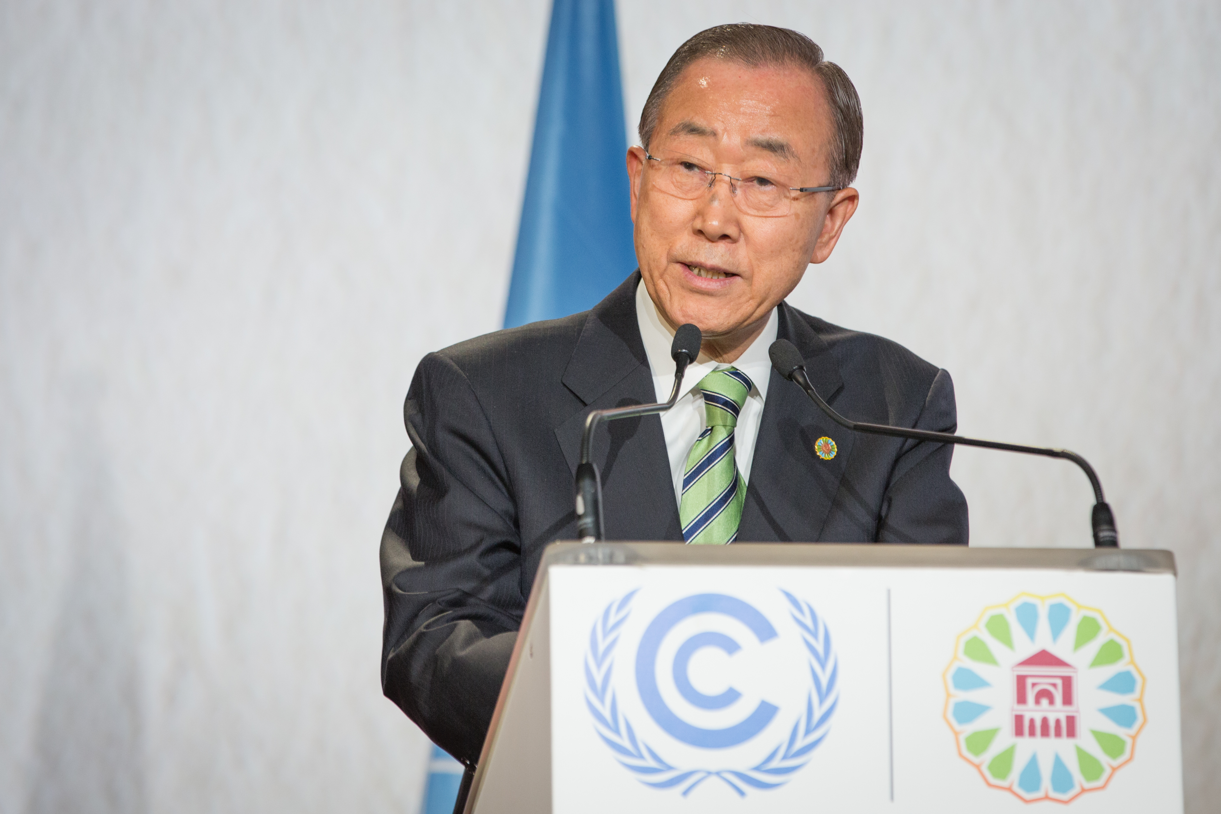 The Secretary General of the United Nations, His Excellency Mr. Ban Ki-moon